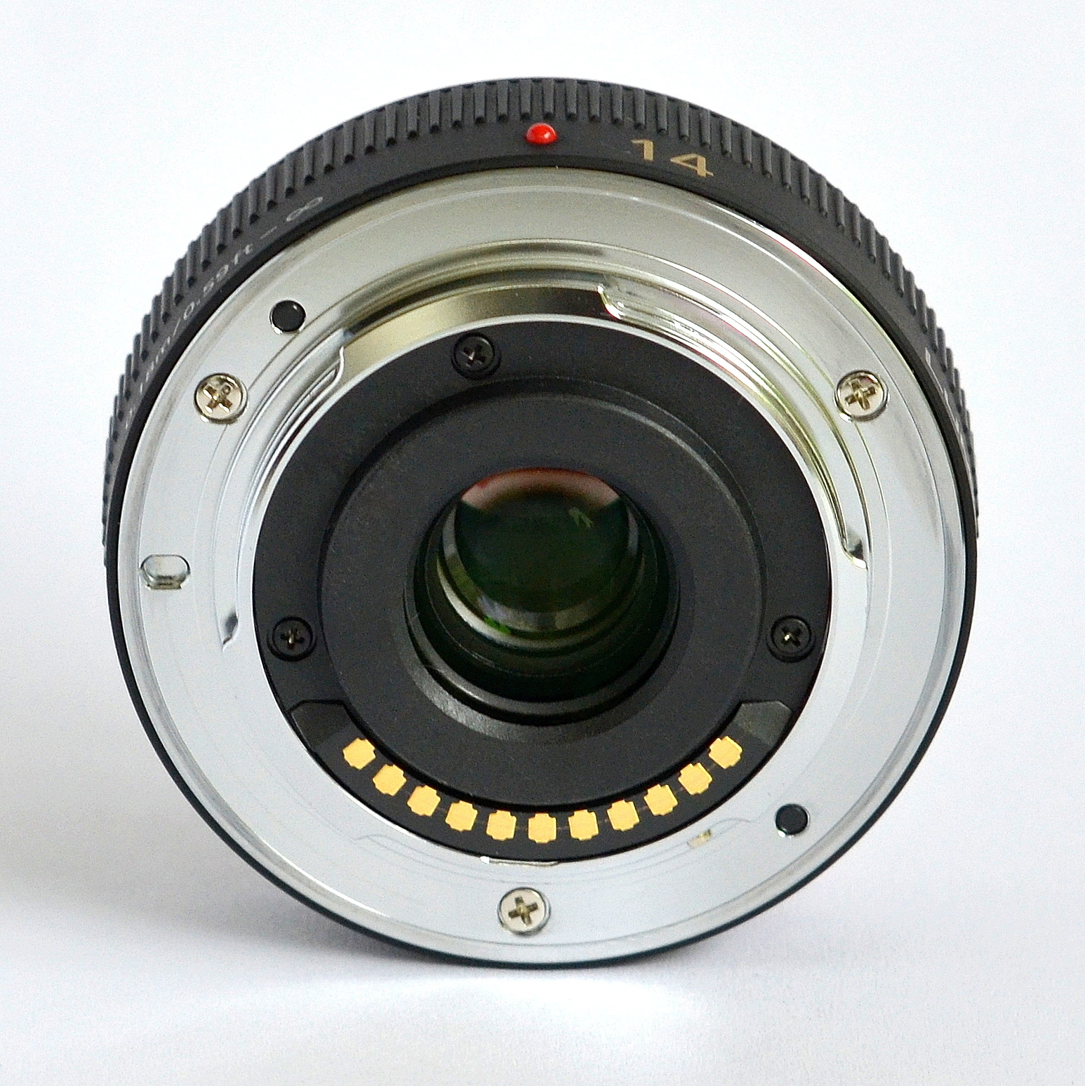 Panasonic 14mm f2.5 pancake lens showing the Micro Four Thirds mount